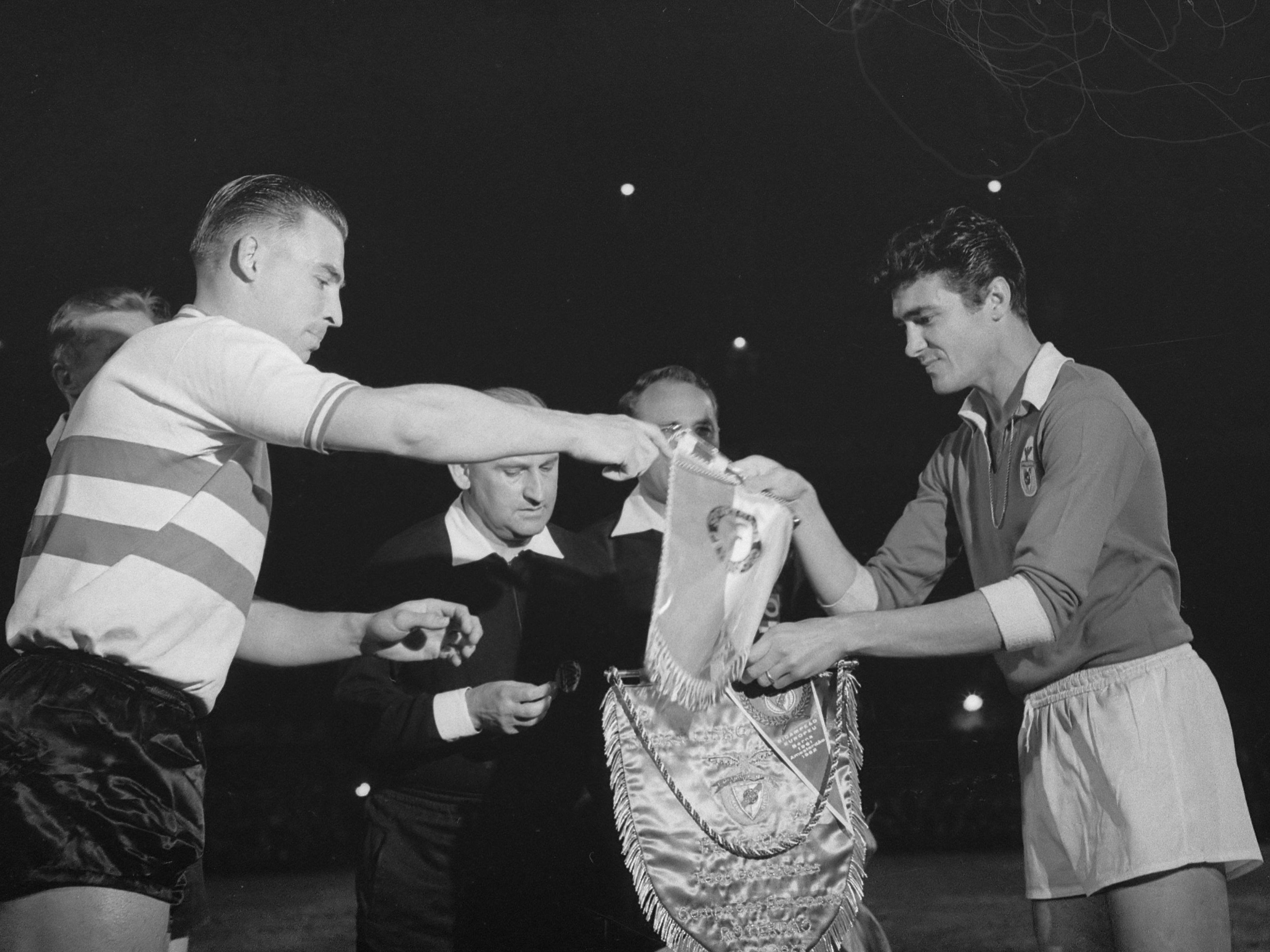 Feyenoord tegen Benfica 0-0. De aanvoerders van Benfica en Feyenoord verwisselen de vaantjes. Links Kerkum, rechts José Aguas*10 april 1963